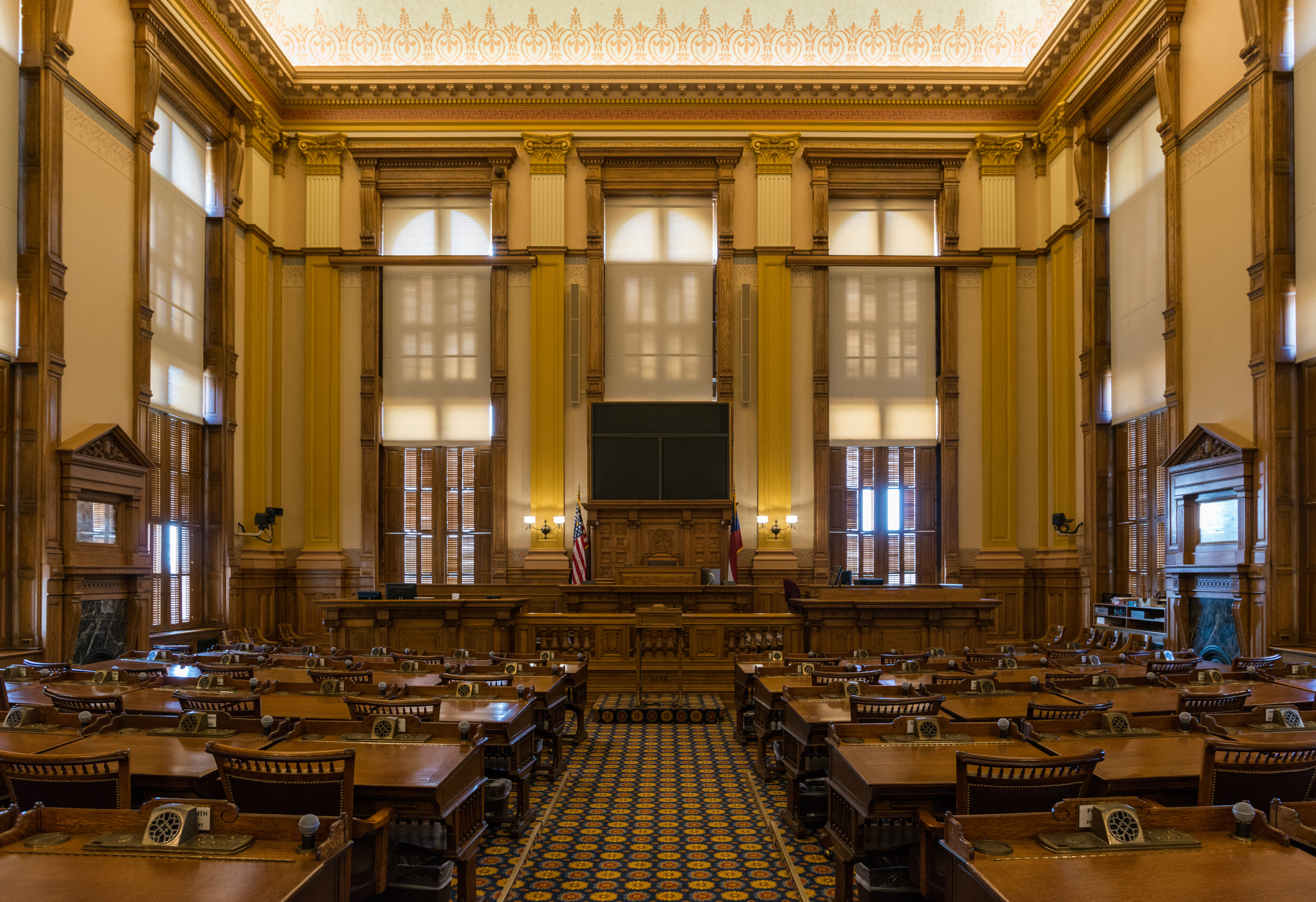 A view of the Senate Chamber in the Georgia State Capitol, Atlanta